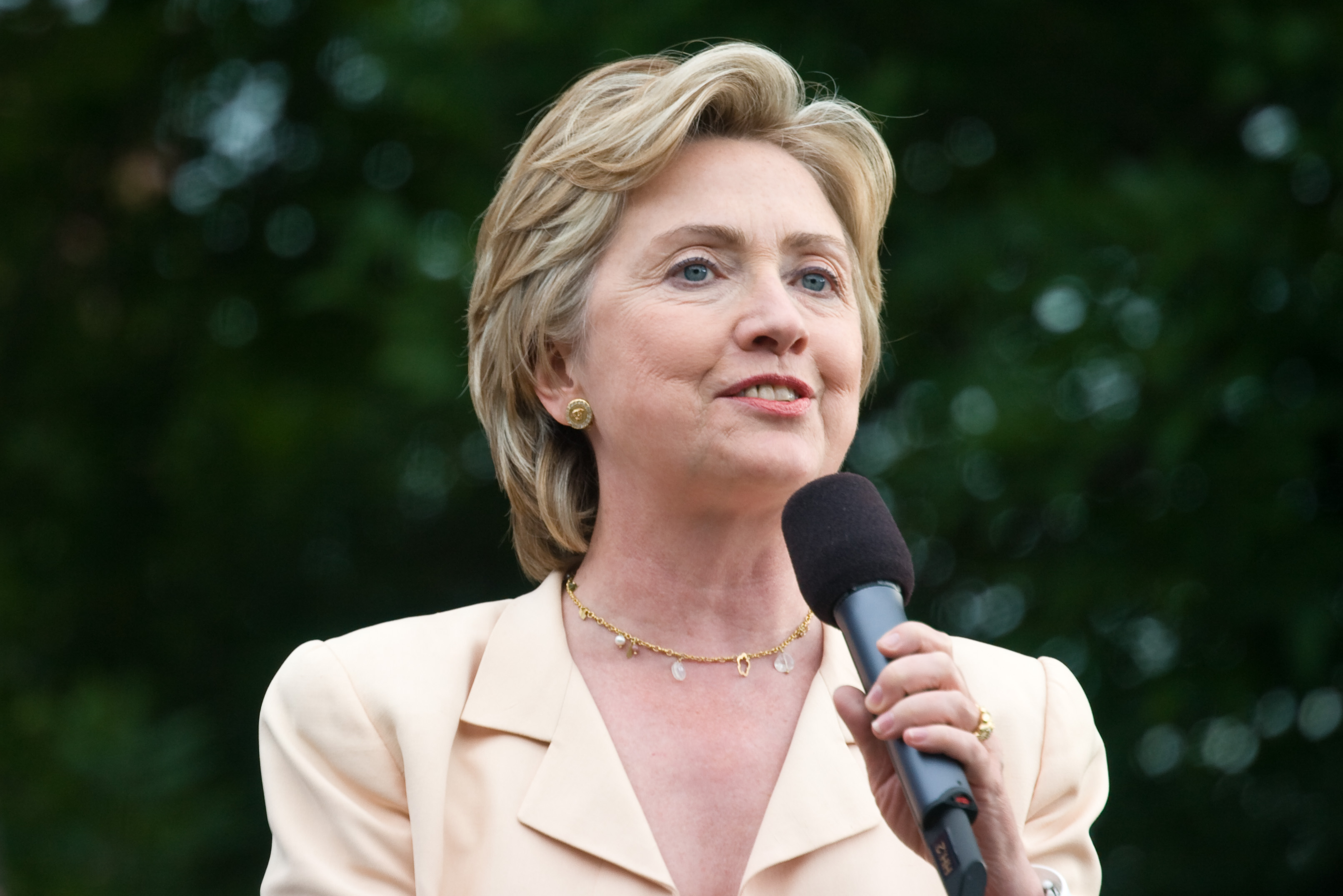 Hillary Clinton in Victory Park, Manchester, New Hampshire.